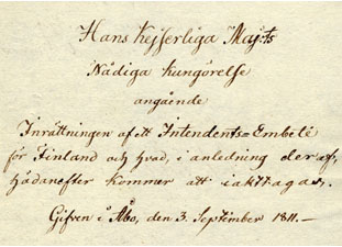 Czar Alexander I`s declaration of 3 September 1811 to establish the office of intendant. 3 September 1811 founding of the office of intendant to supervise the planning of government buildings.